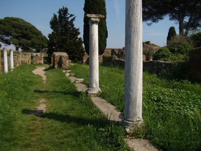 Columns within a building in Ostia Antica (III,I,4)